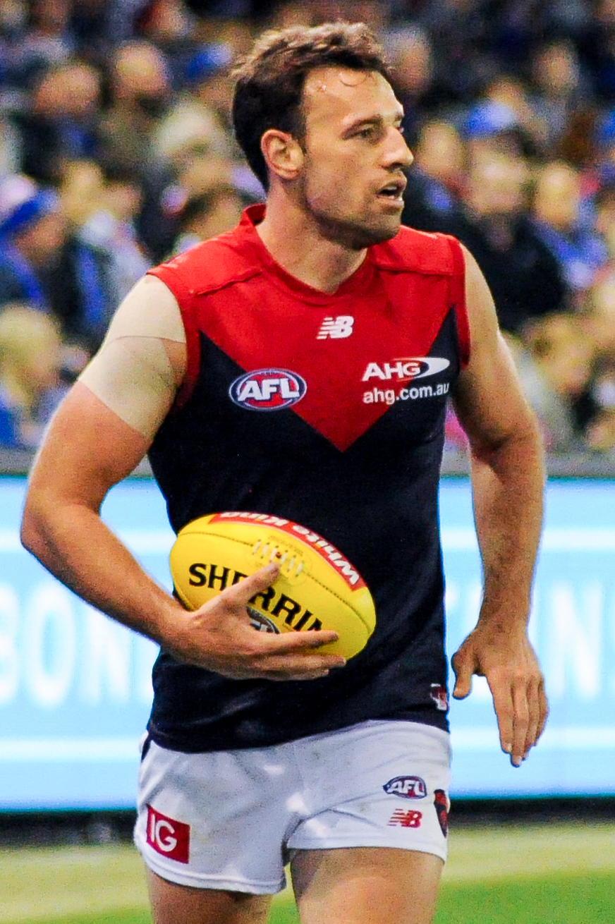 Cameron Pedersen during the AFL round thirteen match between the Western Bulldogs and Melbourne on 18 June 2017 at Etihad Stadium in Melbourne, Victoria.